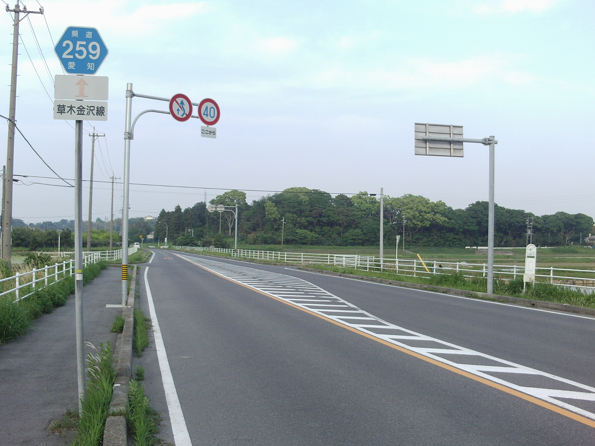 Aichi prefectural road No.259 in Kyokunan 3-chome, Chita, Aichi.